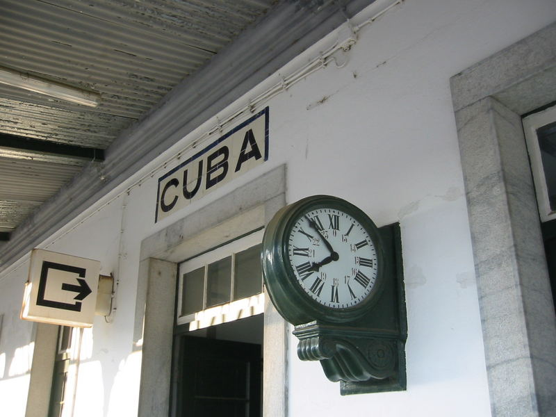 Railway Station of Cuba